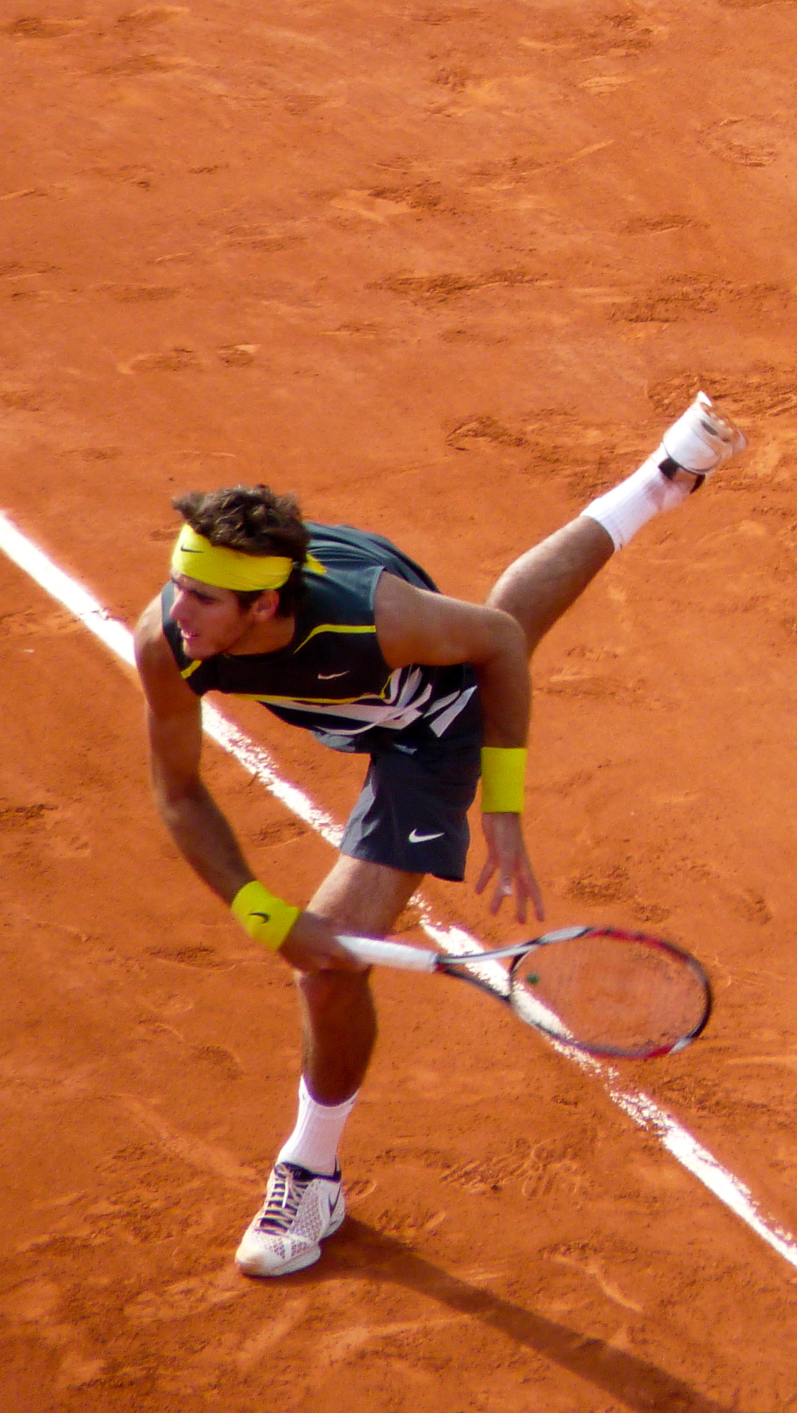 Juan Martín del Potro against Roger Federer in the 2009 French Open semifinals